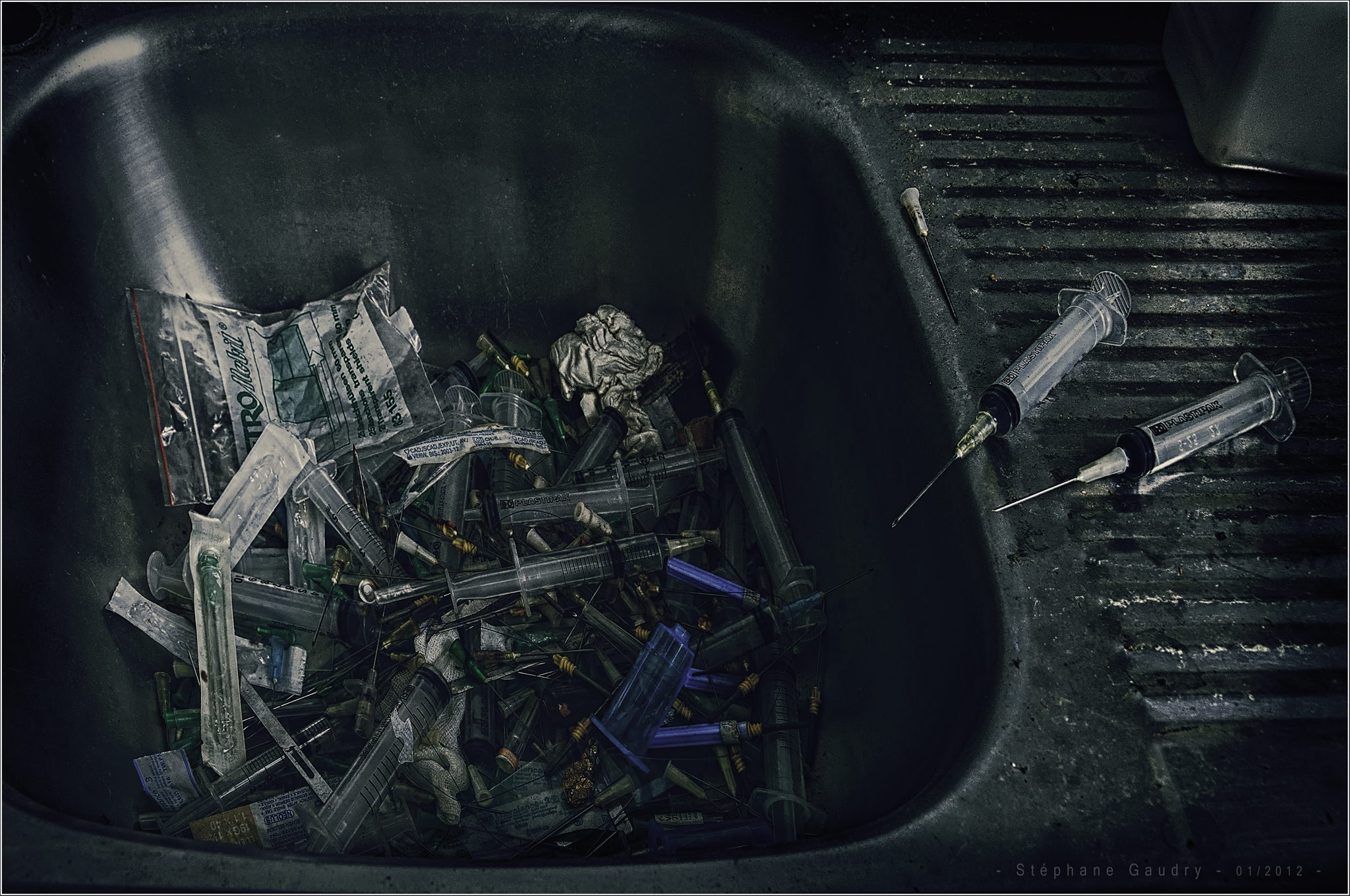 Sad Xmas for Mr Junkie.